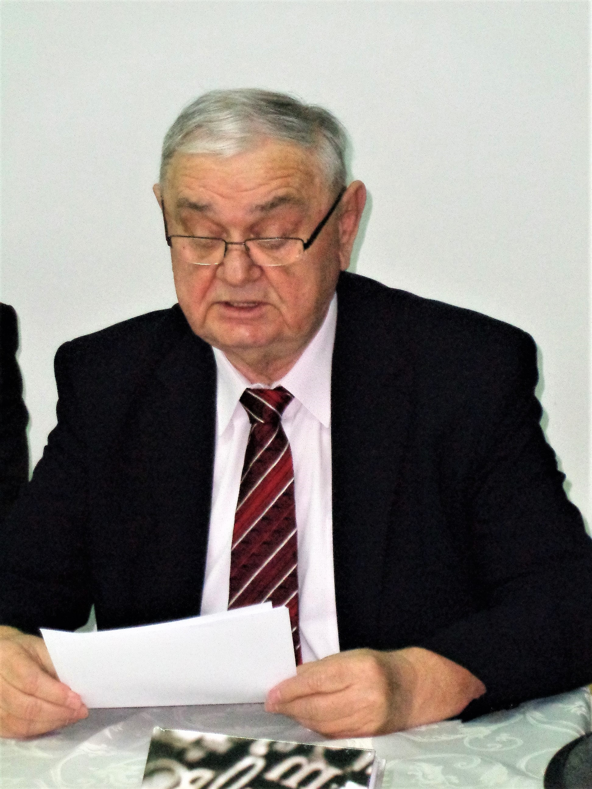 Stjepan Damjanović at the "Care for the Spirit of the Nation" book presentation in Čakovec, Medjimurie County, Croatia